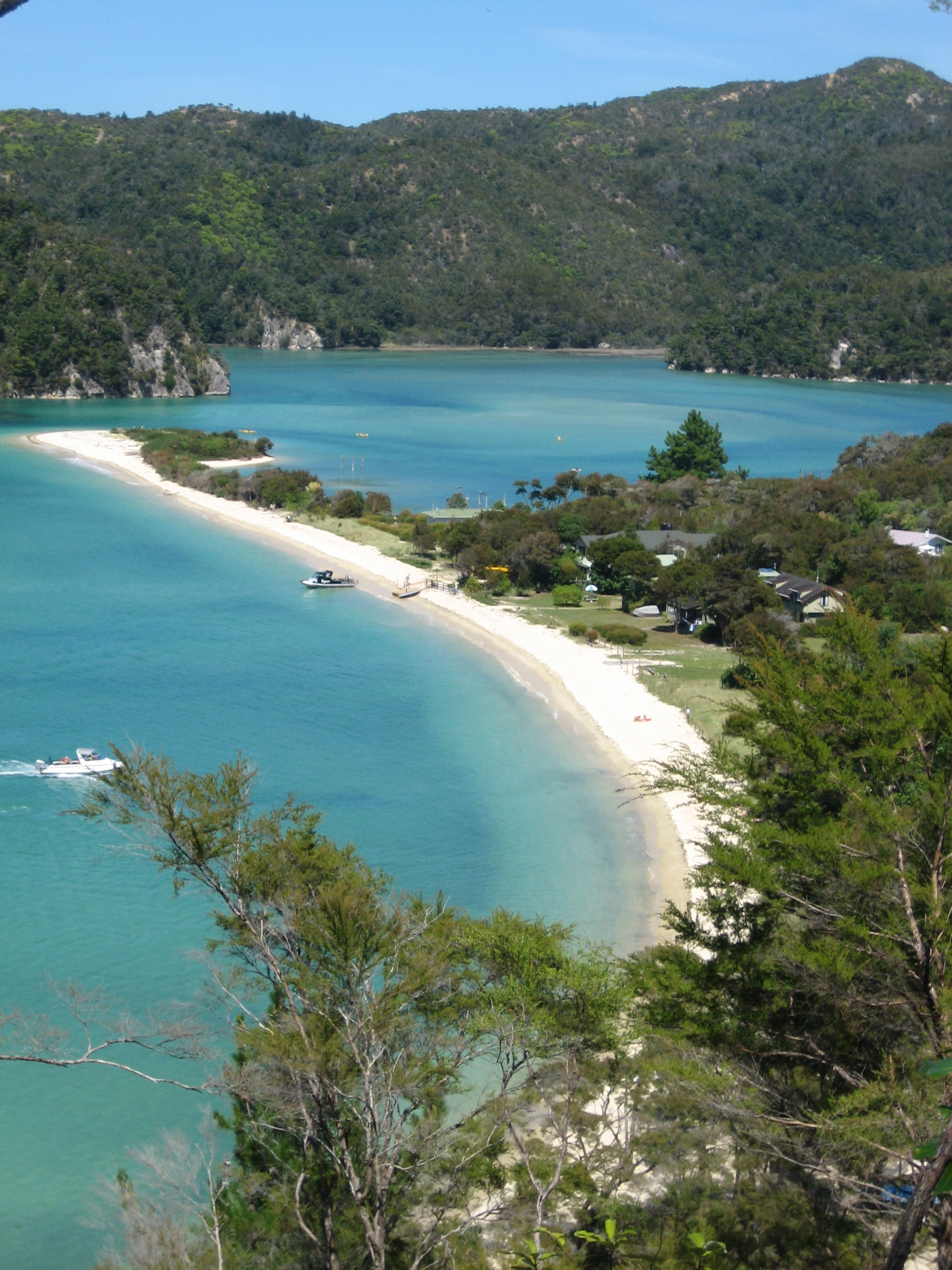 Looking down at Torrent Bay beach and village from the Abel Tasman Park in New Zealand.